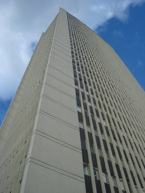 Avianca's Tower in Downtown Bogotá